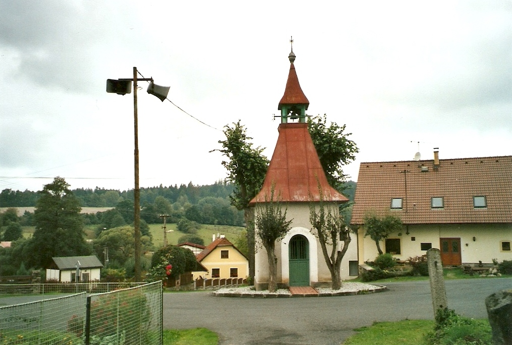 Mlýnské Struhadlo village in Klatovy district, Czech Republic. Chapel on the village common.